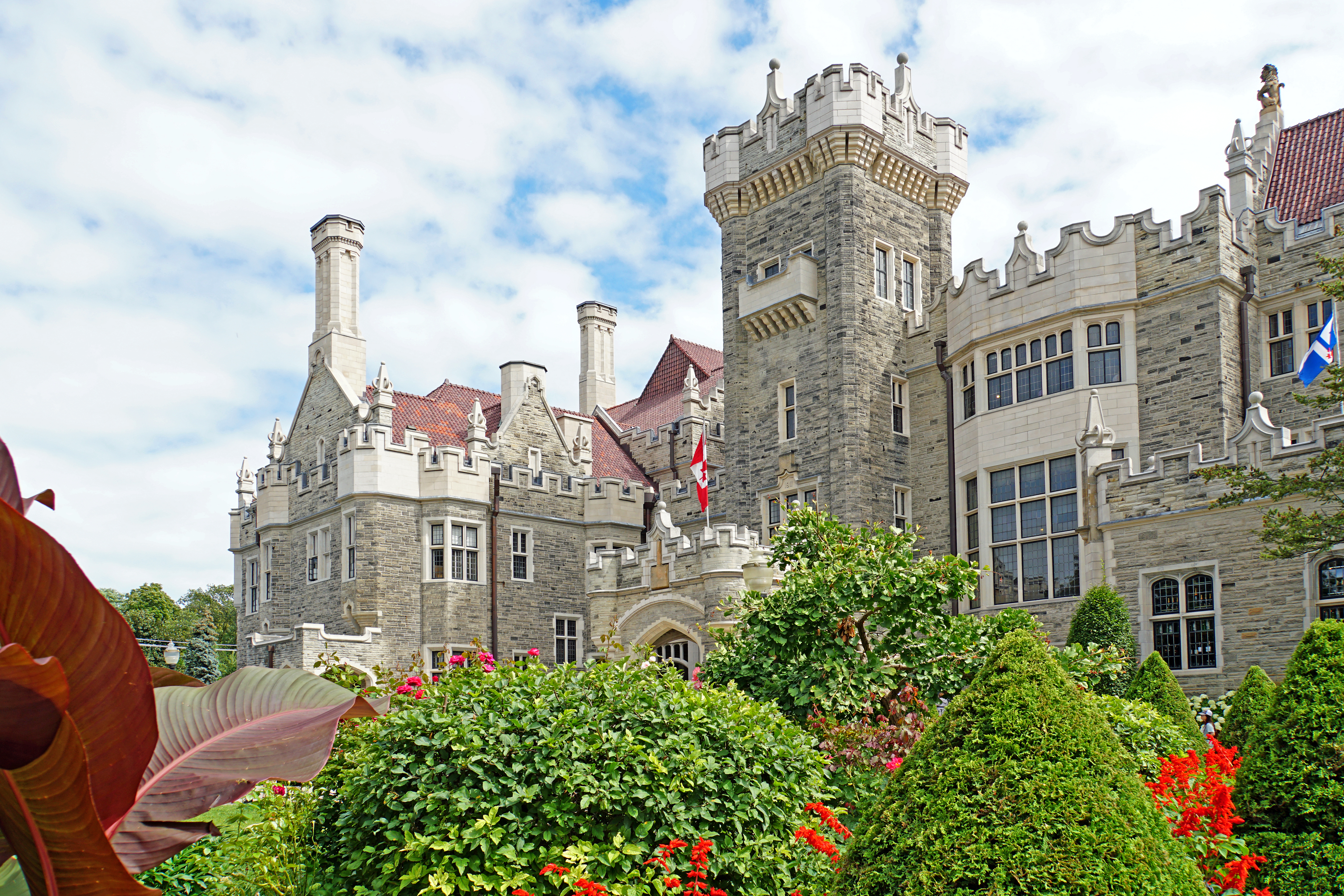 PLEASE, NO invitations or self promotions, THEY WILL BE DELETED. My photos are FREE to use, just give me credit and it would be nice if you let me know, thanks. There was a wedding going on so I could not get a better picture and not have people. Sir Henry Pellatt built Casa Loma. He had a career in commerce in the family business. By the age of 23, he became a full partner in his father's stock brokerage. That year also marked his marriage to Mary Dodgeson whom he met when he was twenty. Travels in Europe gave him the love for fine art and architecture which would spur his vision of Casa Loma "House on the Hill." Unfortunately, Sir Henry Pellatt's fortunes could not sustain Casa Loma. After the war the economy slumped, he went into bankruptcy. The company owed the Home Bank of Canada $1.7 million - or in today's terms $20 million.